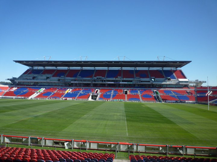 Newly Constructed Western Grandstand